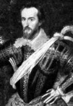 Close-up from portrait of Sir James Scudamore in Holme Lacy dining room